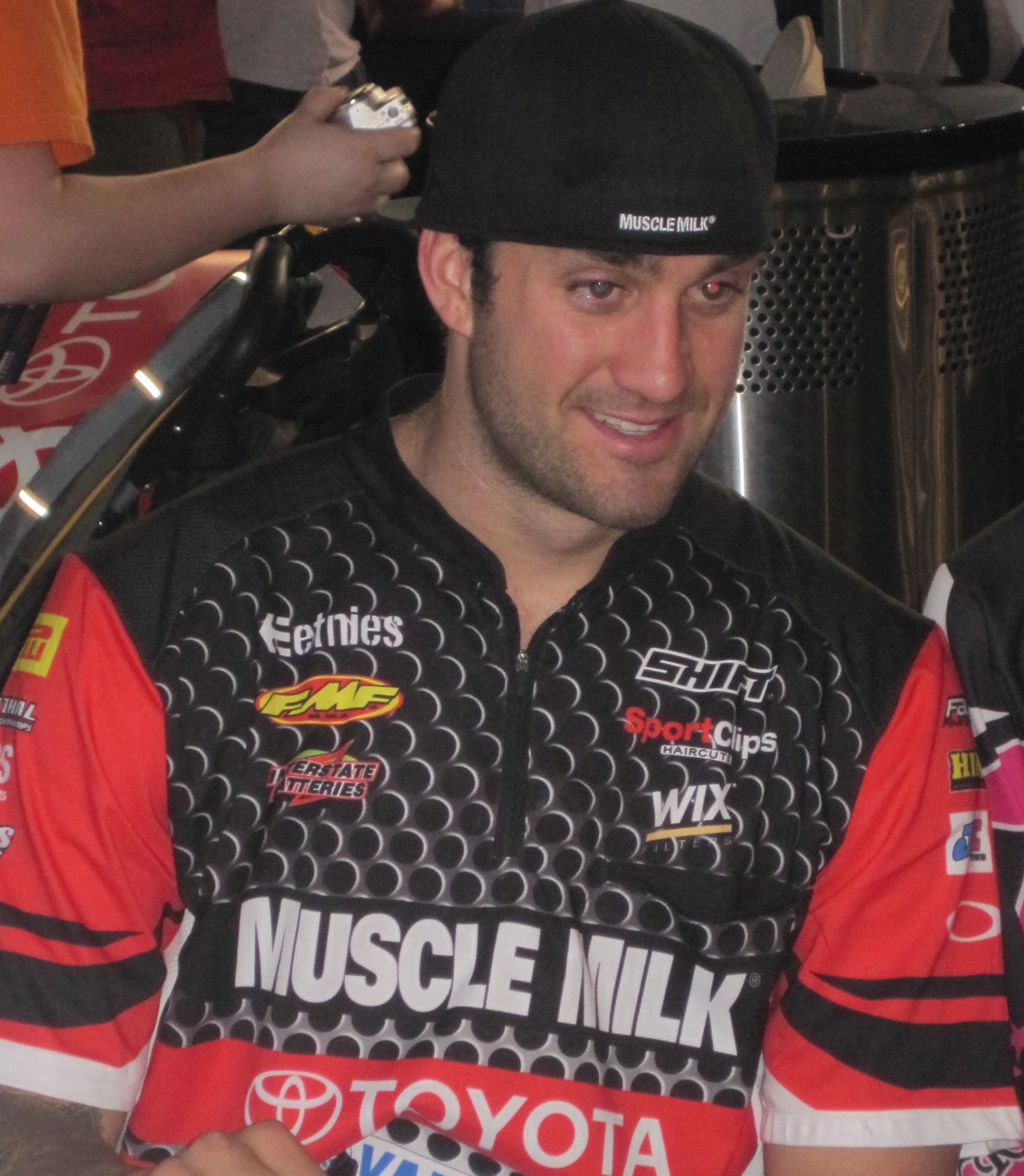 Joe Gibbs Racing Motocross' Davi Millsaps at Lucas Oil Stadium in Indianapolis, Indiana for Monster Energy AMA Supercross. (round 10 of the 2011 season)